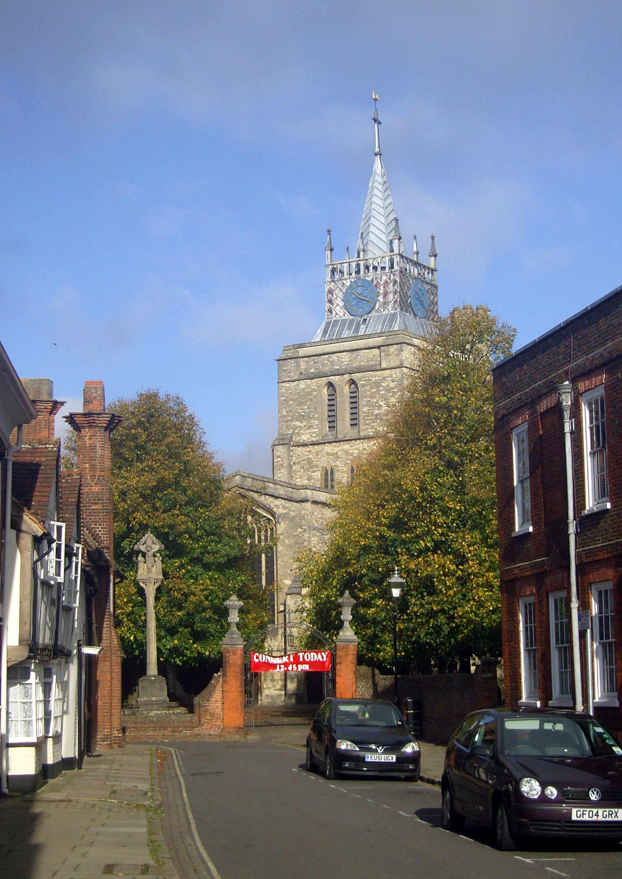 St Mary's Church in Aylesbury, Buckinghamshire.